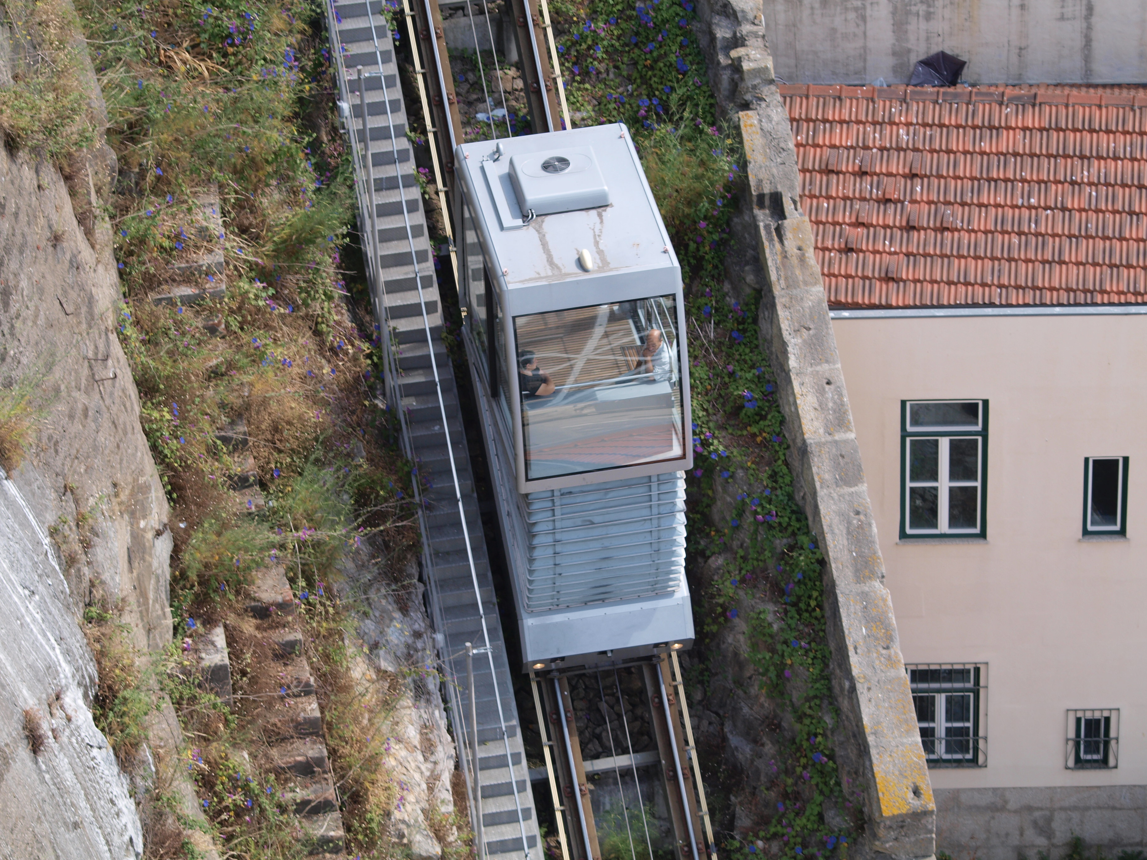 Photographed in Portugal.